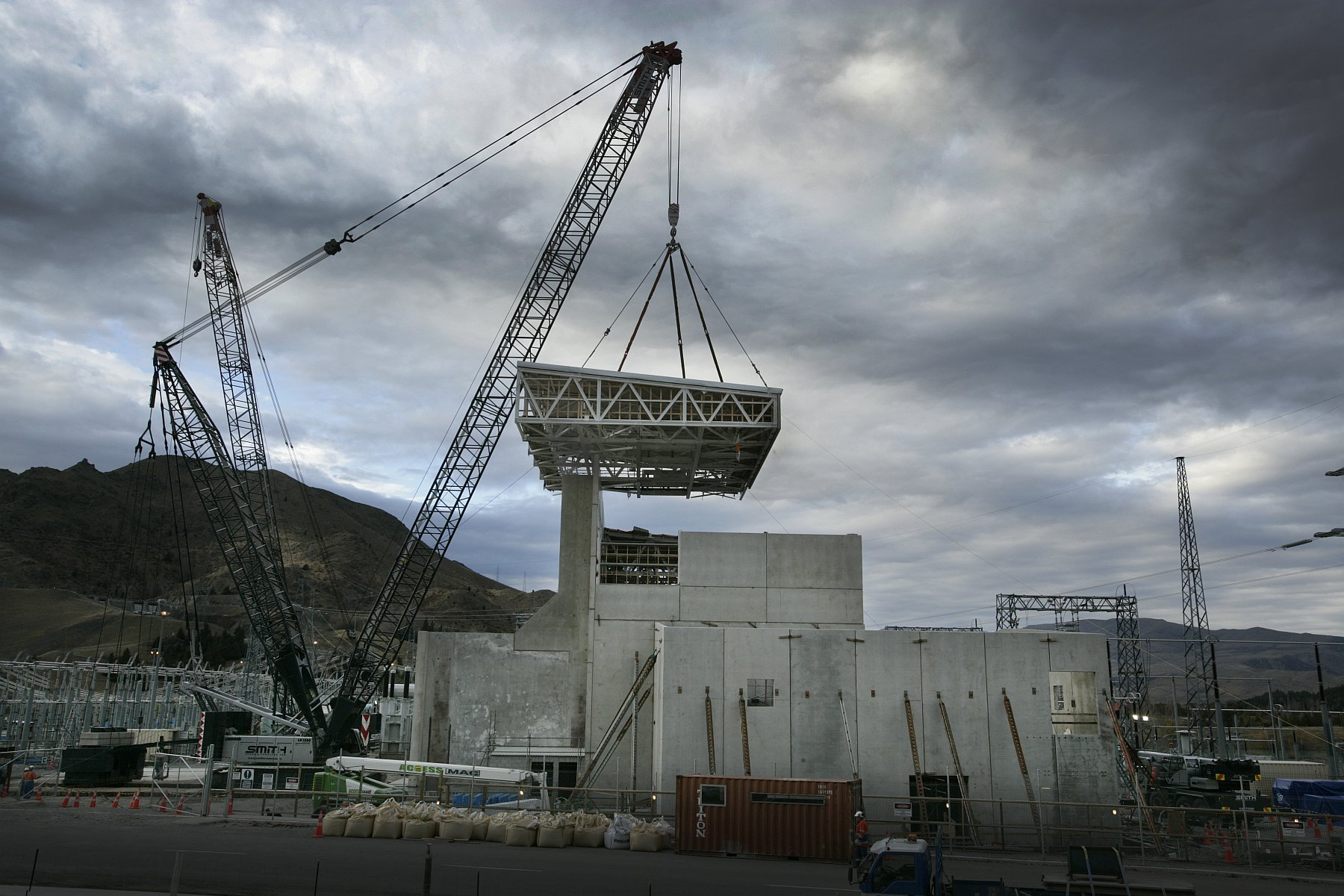 View of the lifting operation to place the pre-assembled roof section on the HVDC Pole 3 valve hall building at Benmore